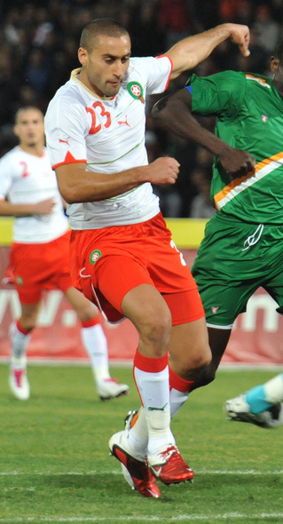 Moroccan football player Ahmed Kantari during match against Niger